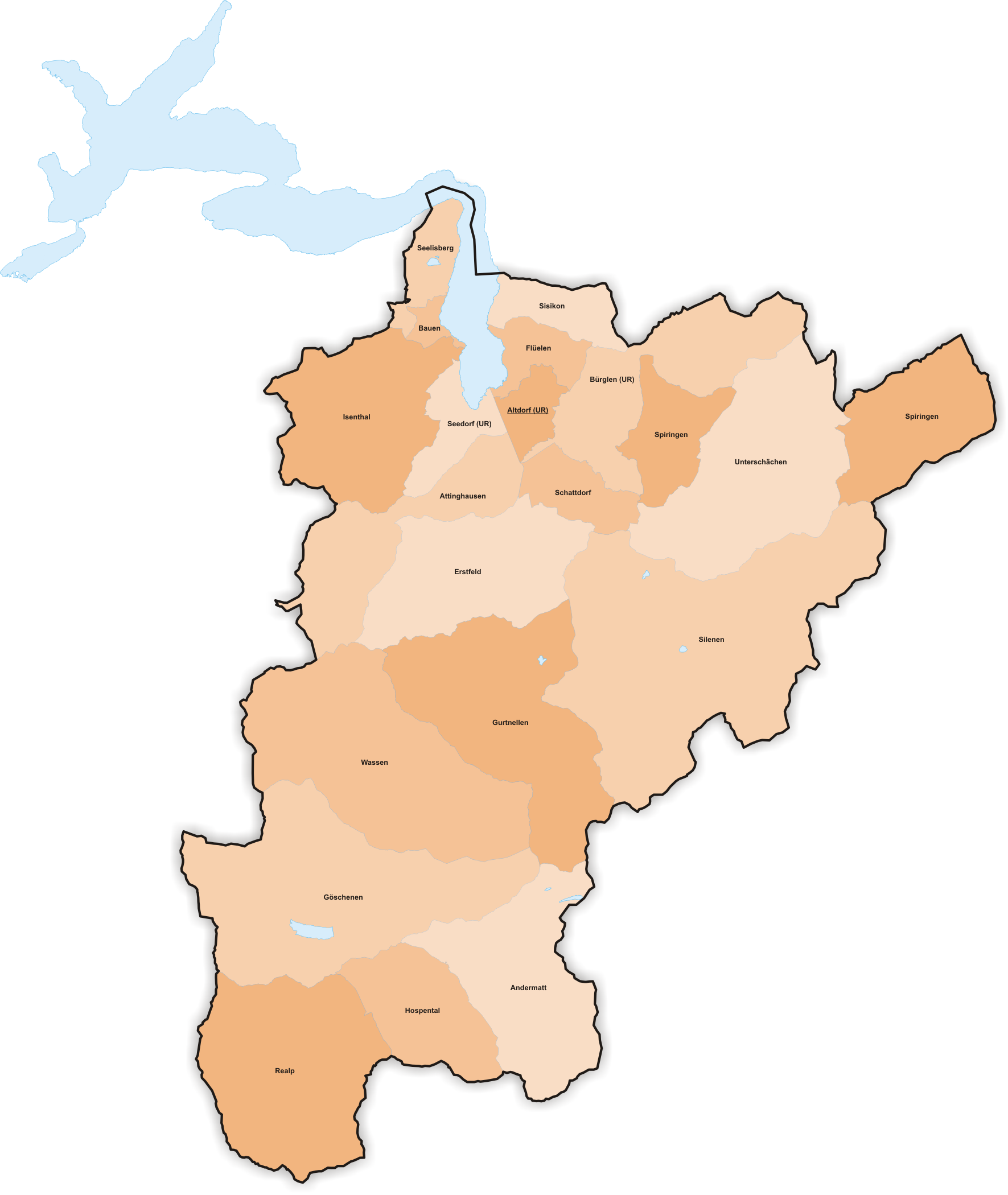 Municipalities in Canton Uri